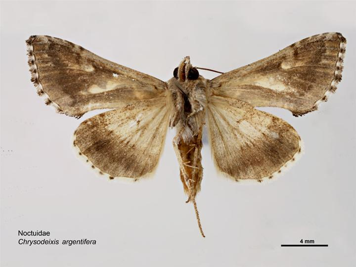 Chrysodeixis argentifera, ventral view. Site LTR1: Western Australia: Barrow Island March 2006 S. Callan R. Graham. Det K. Edwards B. Heterick 2009